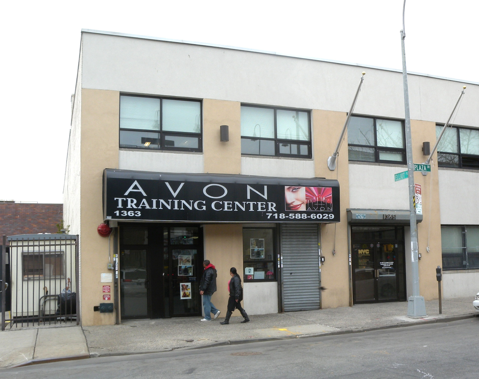 Looking west from Jerome Avenue at Avon training center at the foot of Elliot Place on a cloudy midday.